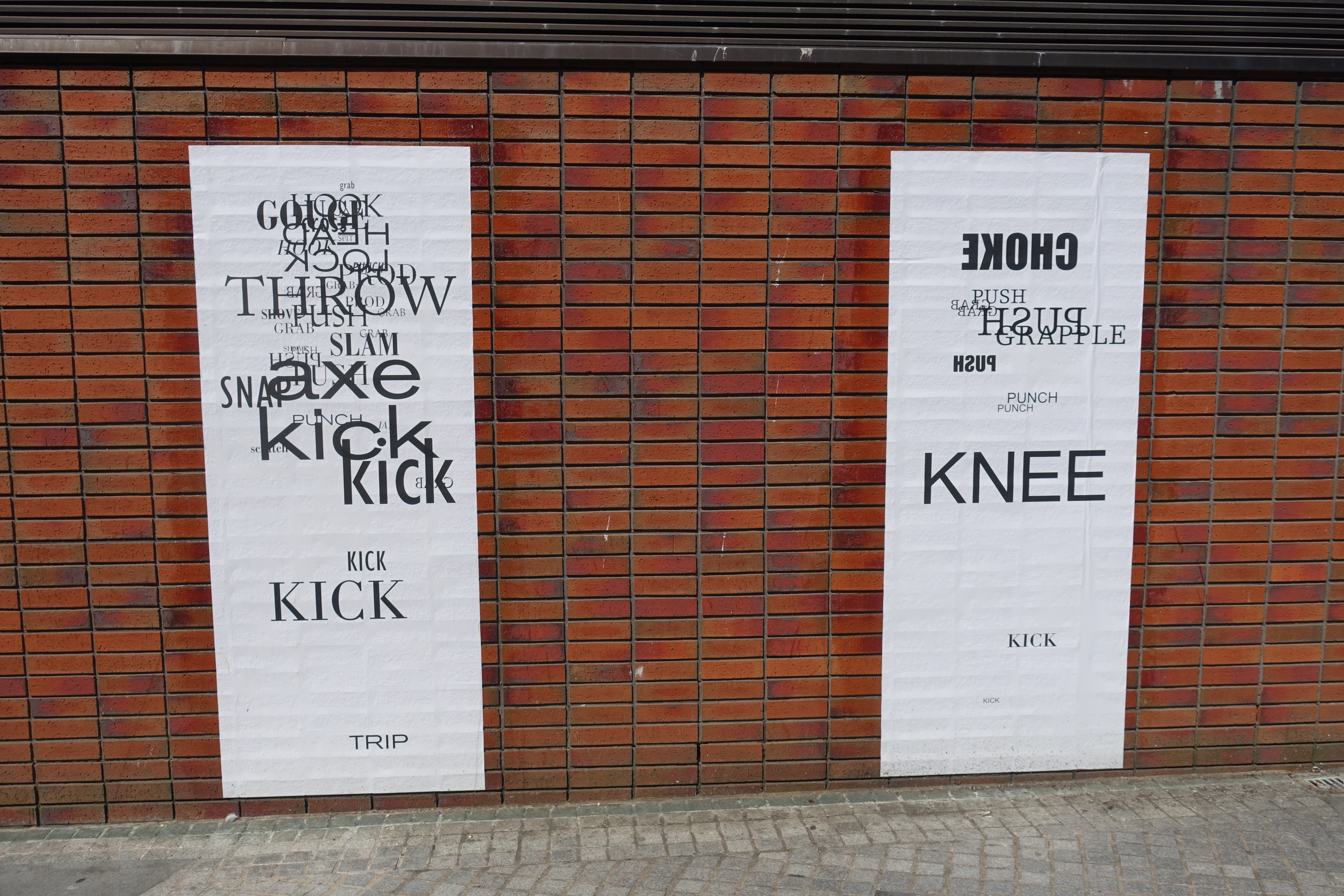 by: Janice Kerbel Screenprint on billboard paper on display in London Street Flight explores how fights erupt unannounced. Janice Kerbel has used the language of unarmed combat to score a fight for a group of individuals. Screened onto large sheets, every action has been recorded onto the area of the body where an impact is to be received, in a front allocated act both as a record of an event and a score for future action. Here you can see two of these posters, there are a few more in the set. They are pasted on the Bluecoat wall outside in the open air (in-between the Bluecoat and the BBC). ref: 4147 ~ 27th July 2018